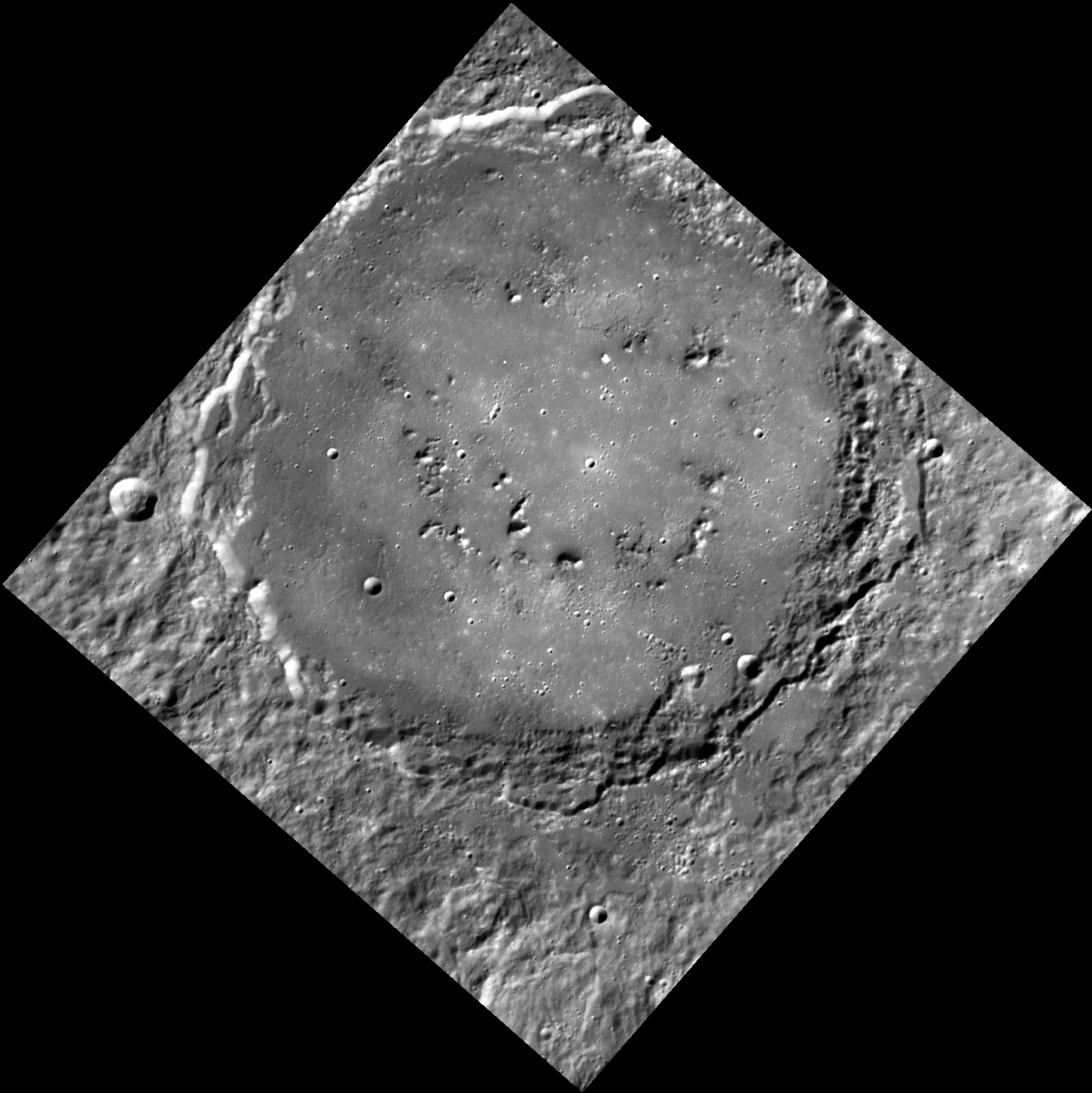 This crater is now called Rustaveli. The original NASA caption follows. Date acquired: July 16, 2011 Image Mission Elapsed Time (MET): 219266241 Image ID: 509587 Instrument: Wide Angle Camera (WAC) of the Mercury Dual Imaging System (MDIS) WAC filter: 7 (748 nanometers) Center Latitude: 51.79° Center Longitude: 82.82° E Resolution: 203 meters/pixel Scale: The basin is approximately 180 km (112 mi) in diameter Incidence Angle: 62.3° Emission Angle: 0.2° Phase Angle: 62.5° Of Interest: This image taken by MDIS's Wide Angle Camera is dominated by an unnamed basin formed from a large impact on the surface of Mercury. Although the impact was energetic enough to create a central peak ring in the basin, the ring has been mostly flooded by impact melt and/or volcanic plains. To the MESSENGER summer interns, the partial ring of mountains resembles a smile. This image was acquired as part of MDIS's high-resolution surface morphology base map. The surface morphology base map will cover more than 90% of Mercury's surface with an average resolution of 250 meters/pixel (0.16 miles/pixel or 820 feet/pixel). Images acquired for the surface morphology base map typically have off-vertical Sun angles (i.e., high incidence angles) and visible shadows so as to reveal clearly the topographic form of geologic features.